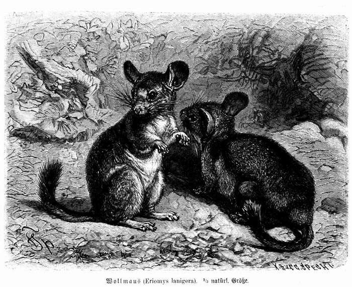 Chinchilla lanigera (Eriomys lanigera, Wollmaus)